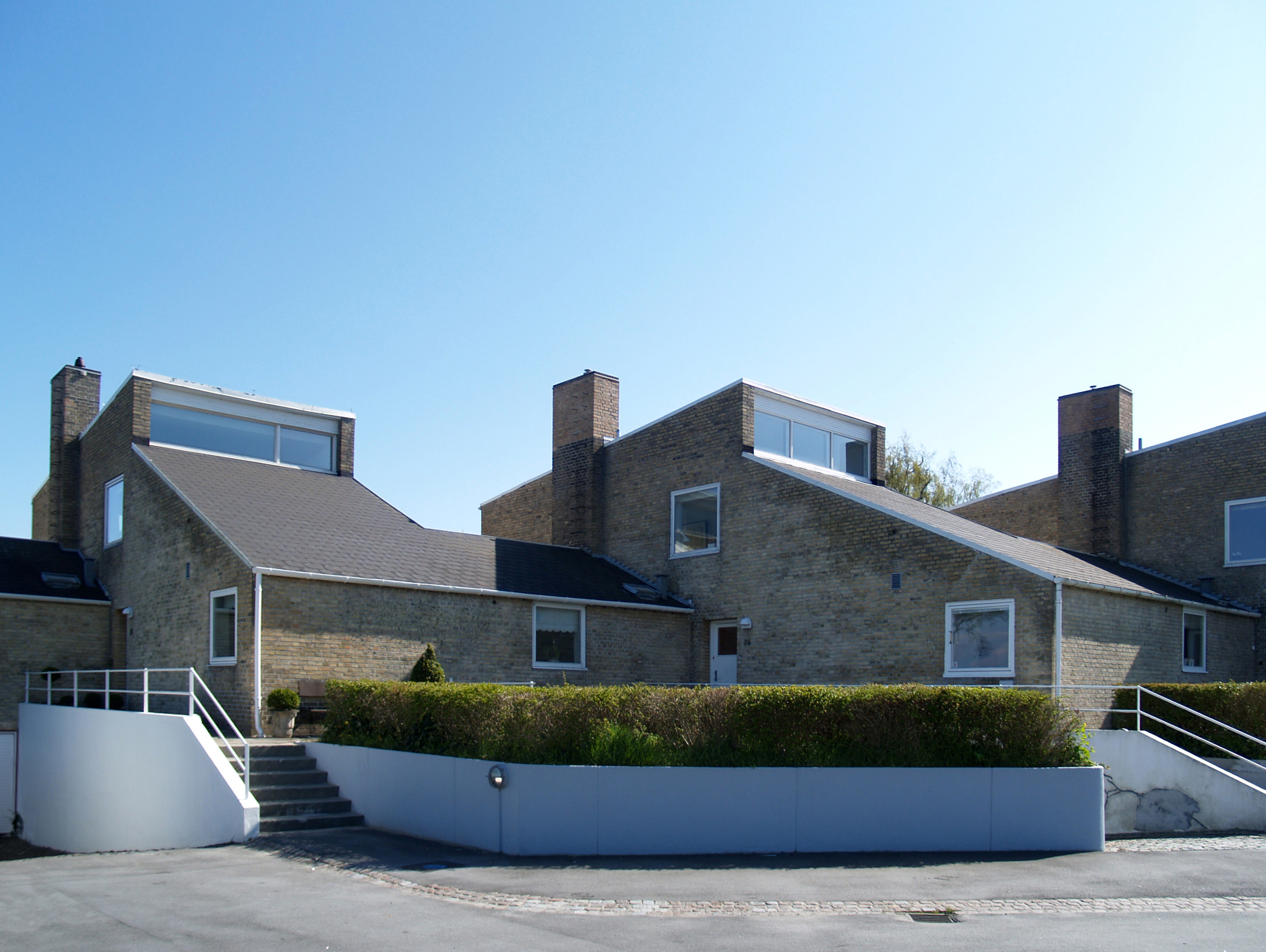 Søholm I settlement, Klampenborg (Copenhagen), 1946-1950. Architect: Arne Jacobsen, 1902-1971.